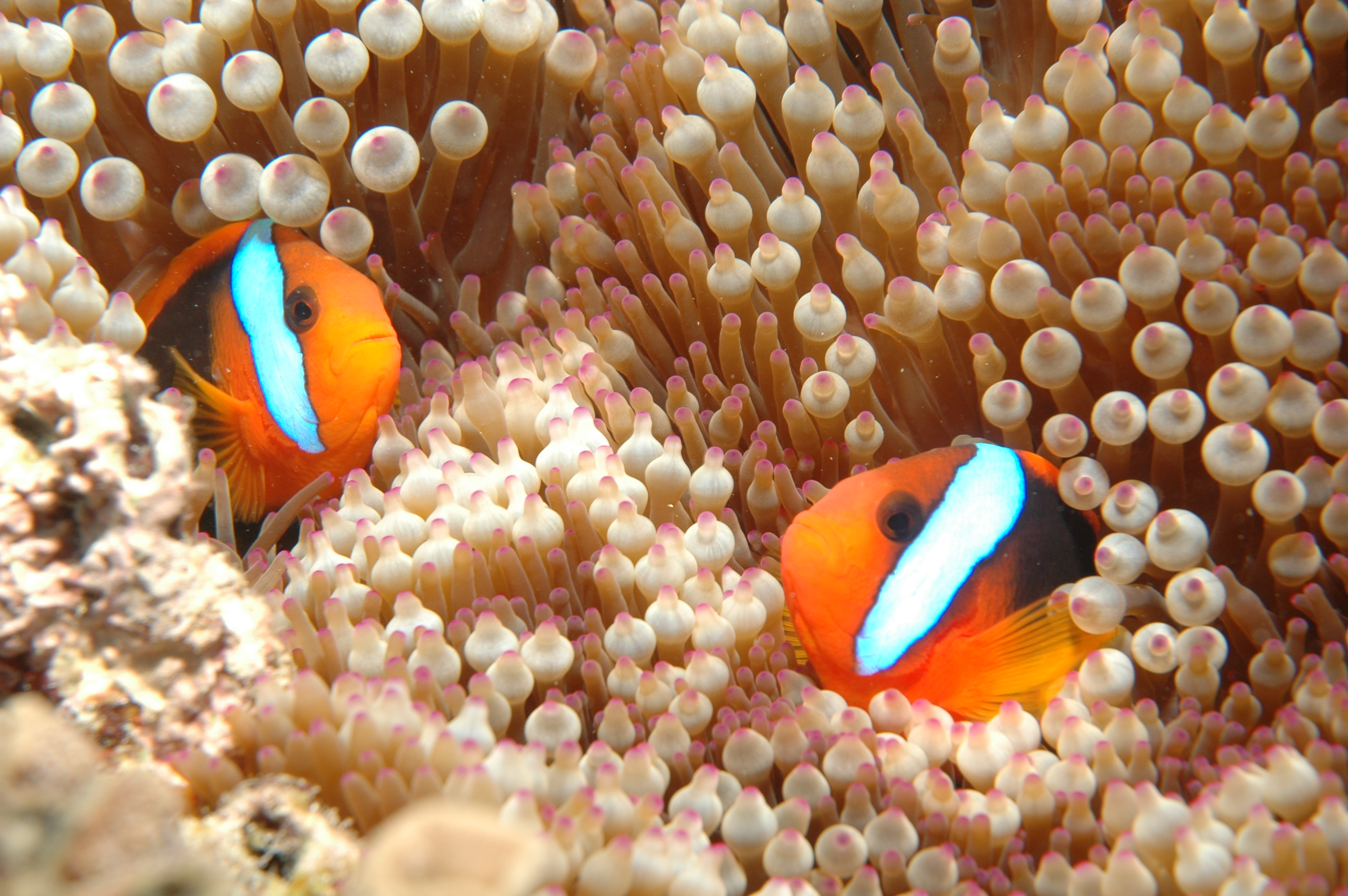 Clownfish,_Great_Barrier_Reef,_Cairns,_Australia